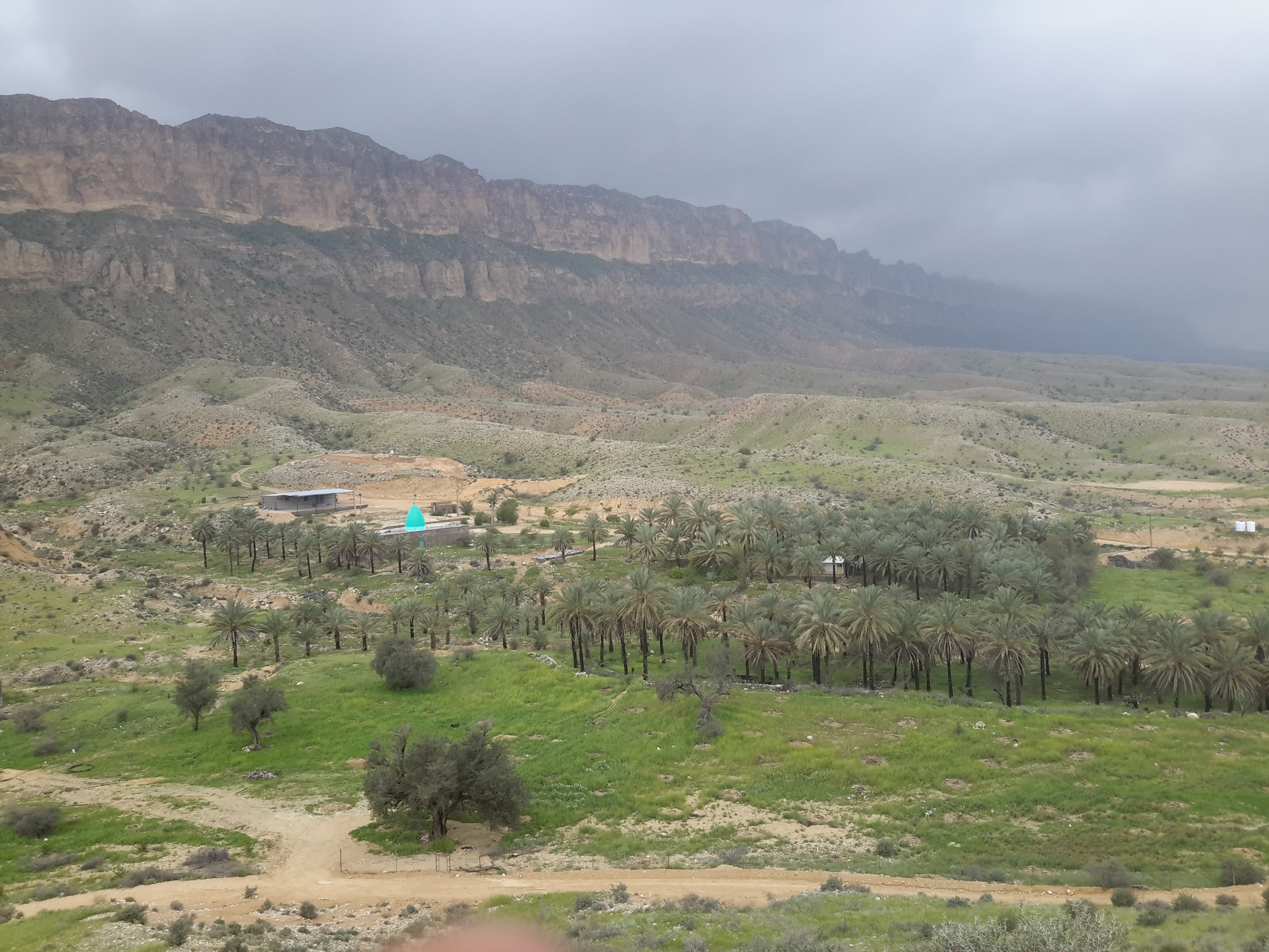 Dimidi from the hill